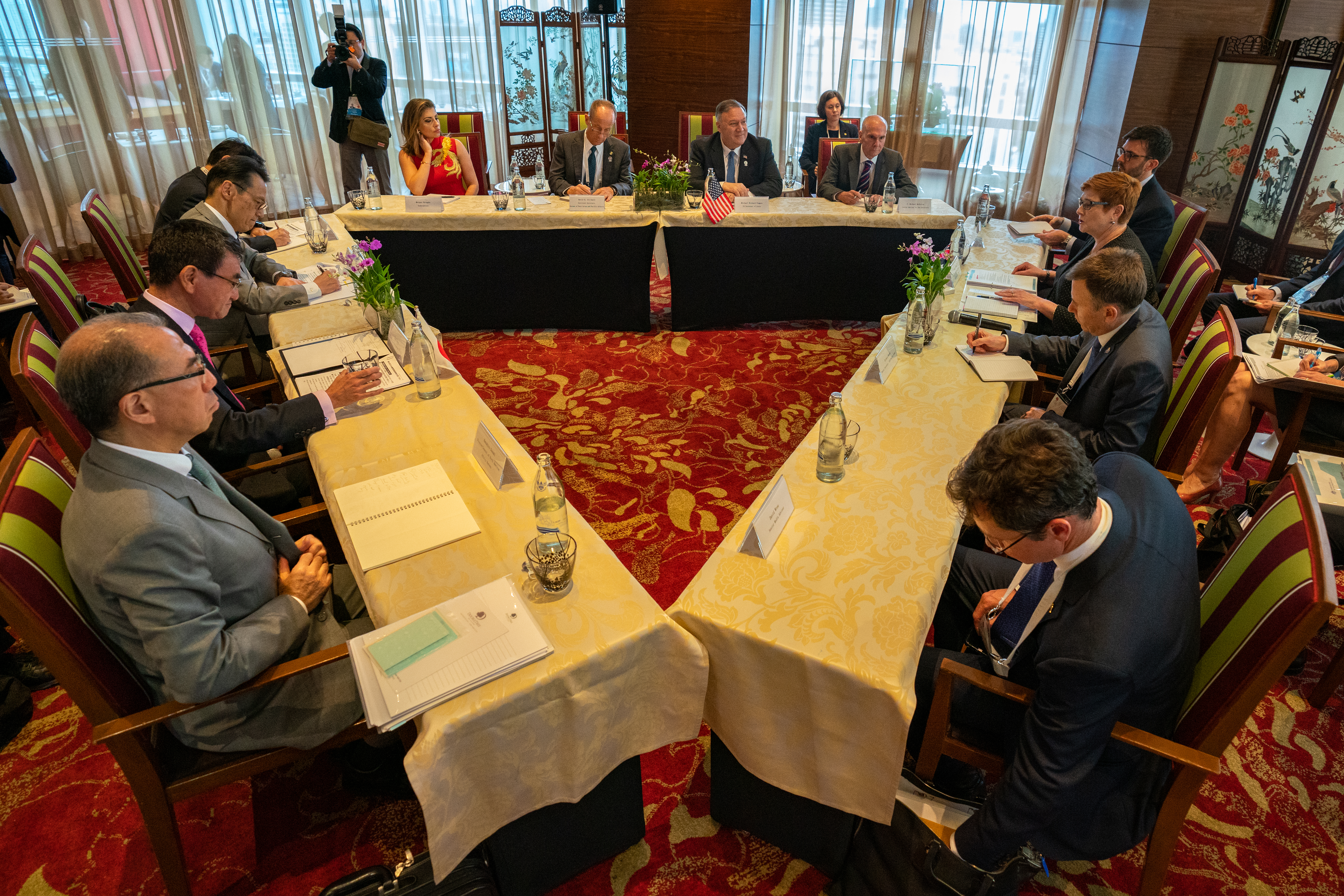 U.S. Secretary of State Michael R. Pompeo participates in the U.S.-Australia-Japan Trilateral Strategic Dialogue with Australian Foreign Minister Marise Payne and Japanese Foreign Minister Taro Kono in Bangkok, Thailand on August 1, 2019. [State Department photo by Ron Przysucha/ Public Domain]